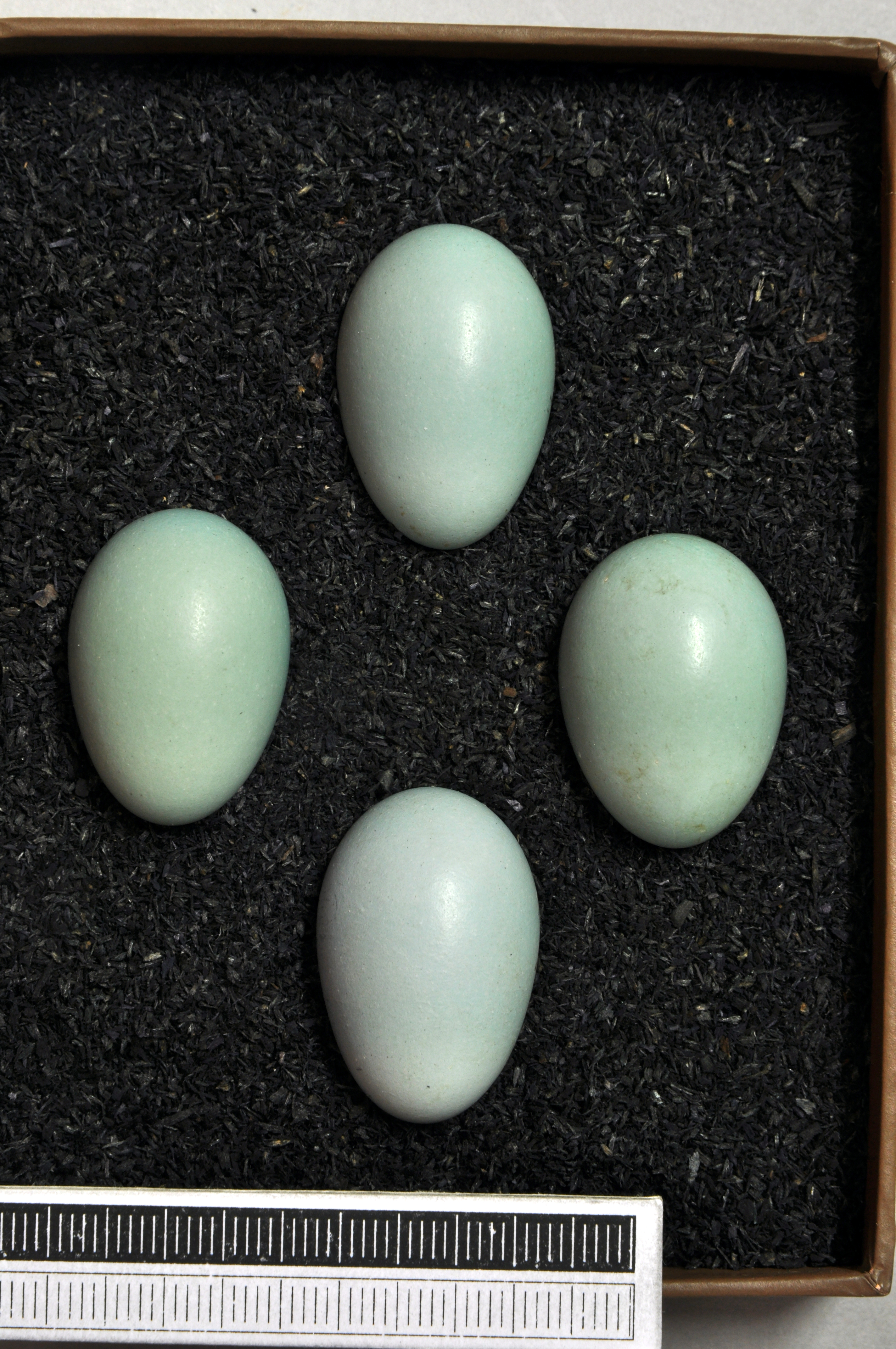 American robin Turdus migratorius , egg, Coll. Museum Wiesbaden